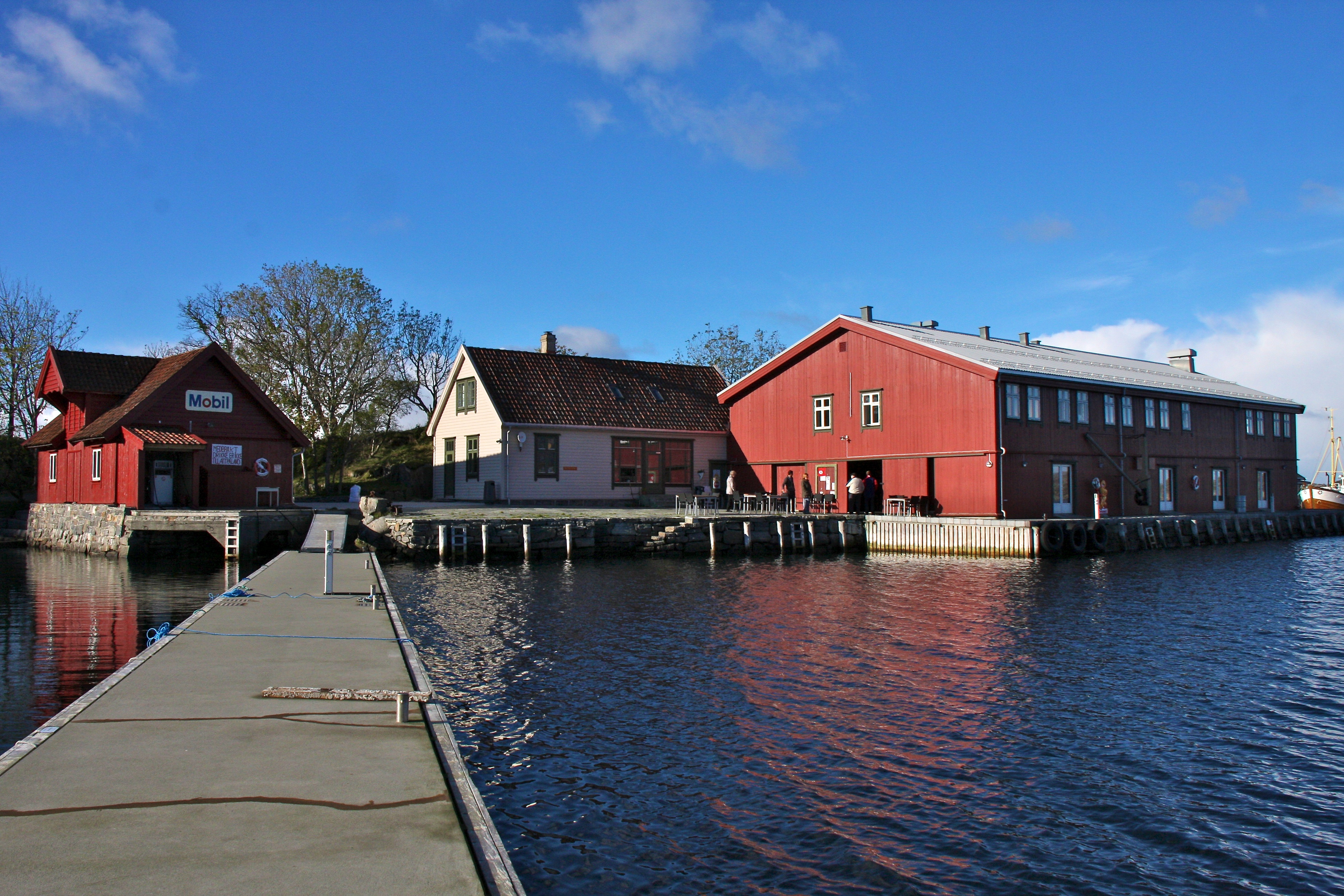 Gulen municipality, Norway.